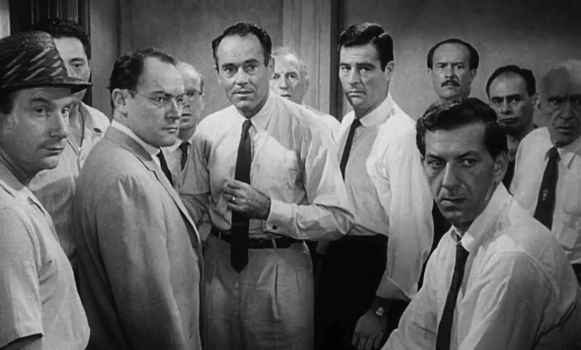 Screenshot of the trailer of the film 12 Angry Men (1957).